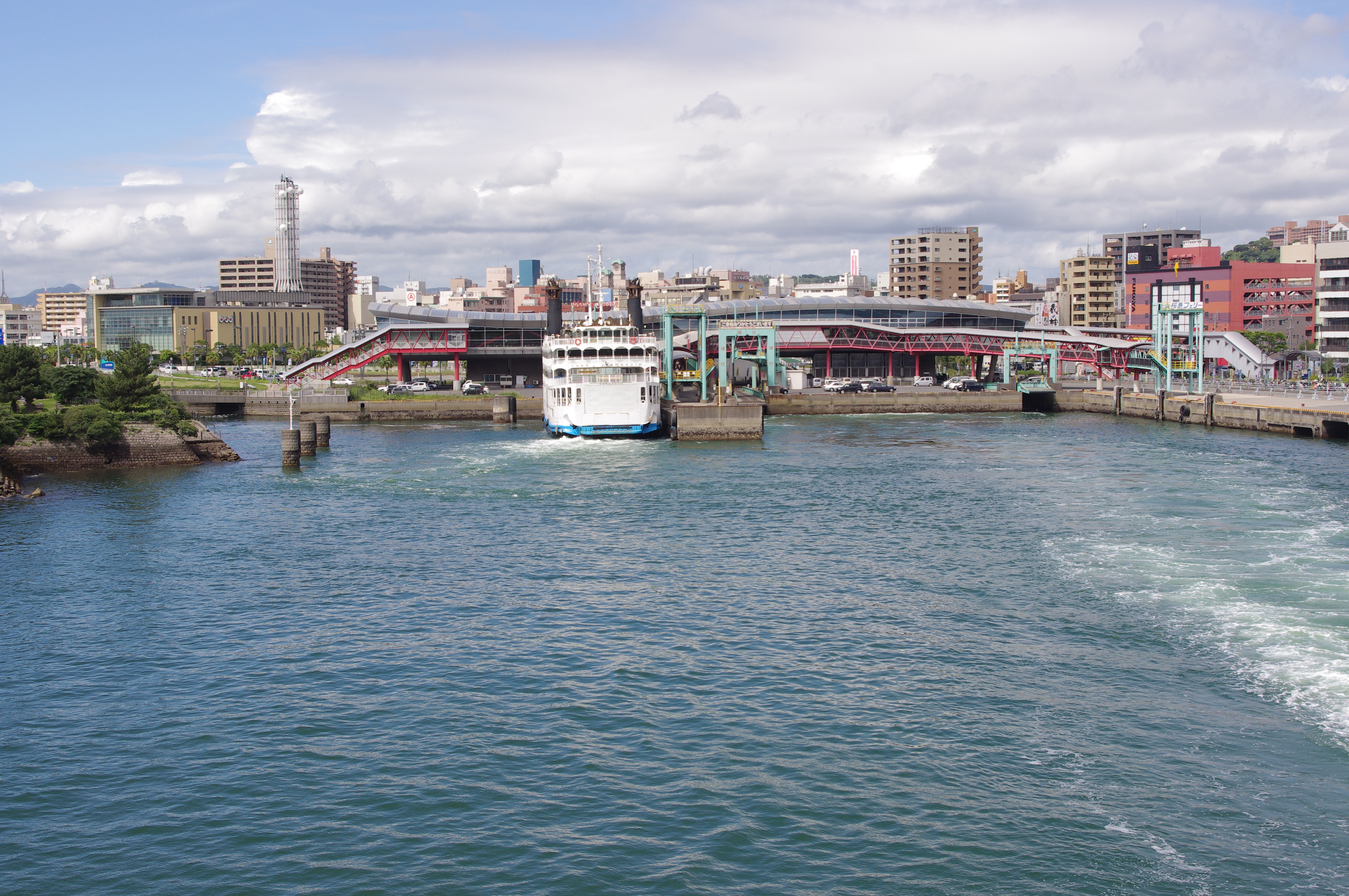 Ferry port in Kagoshima, Sakurajima Ferry